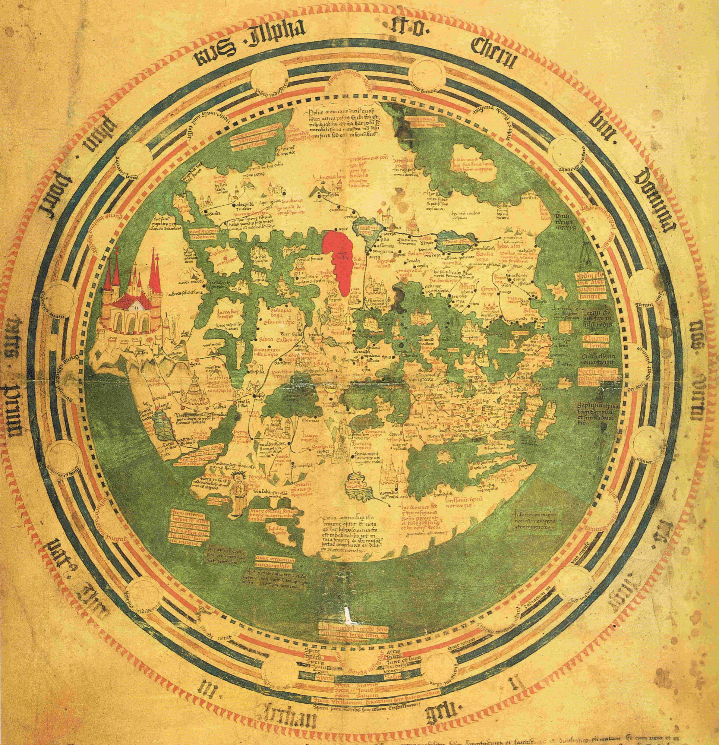 Mappa mundi by Andreas Walsperger (South is at top; Red Sea is shown in red) Biblioteca Apostolica Vaticana - Pal. lat. 1362 B